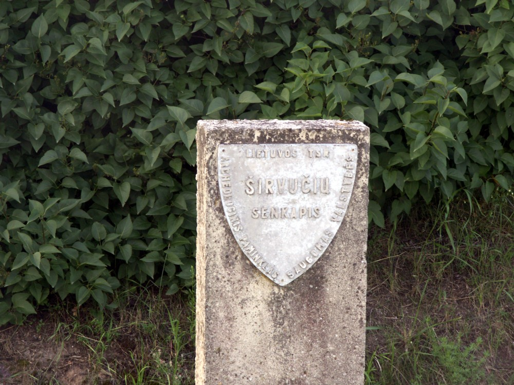 Širvučiai, Šiauliai district, Lithuania